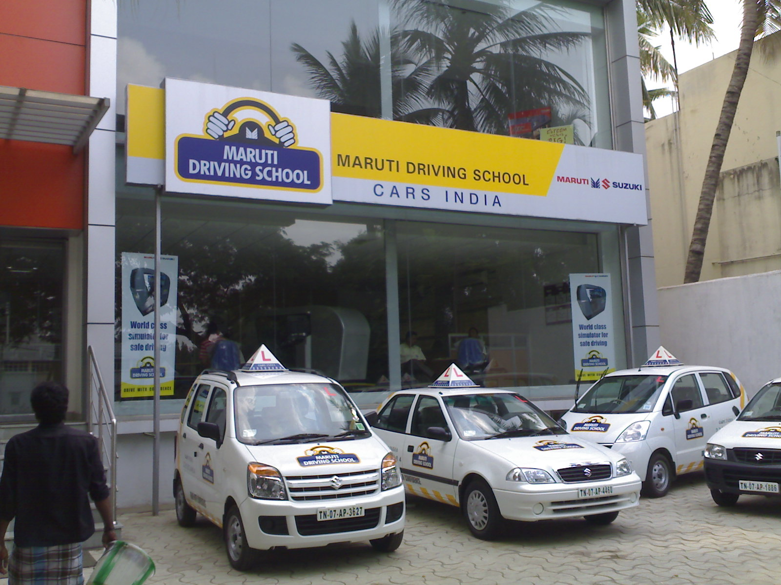 A Maruti Driving School in Bangalore